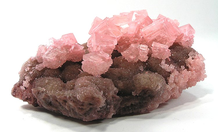 Halite Locality: Searles Lake, San Bernardino County, California, USA (Locality at ) Okay, halite is salt, but for one thing, it is just as legitimate a mineral as any other, even if you CAN eat it (not this though - it contains bacteria so dont lick it!). This batch of gorgeous halite specimens was mined recently in California, and they are REALLY distinctive. Look at the amazingly fine structure of the crystals and beautiful bright pink color! But more than that, they have this wonderful contrast with a uniquely new matrix covered with minute nahcolite (which is sodium bicarbonate; isnt that what you take for an upset stomach? Okay, so after you get sick licking the halite you can lick the matrix to get better!). Bottom line: it is just a plain stunningly pretty mineral specimen from a recent find; I bought ALL OF THEM THAT WERE AVAILABLE from the one contact who brought them to a show this year in California. This is a large and obviously very beautiful specimen from the find. 13.5 x 7.7 x 5.2cm